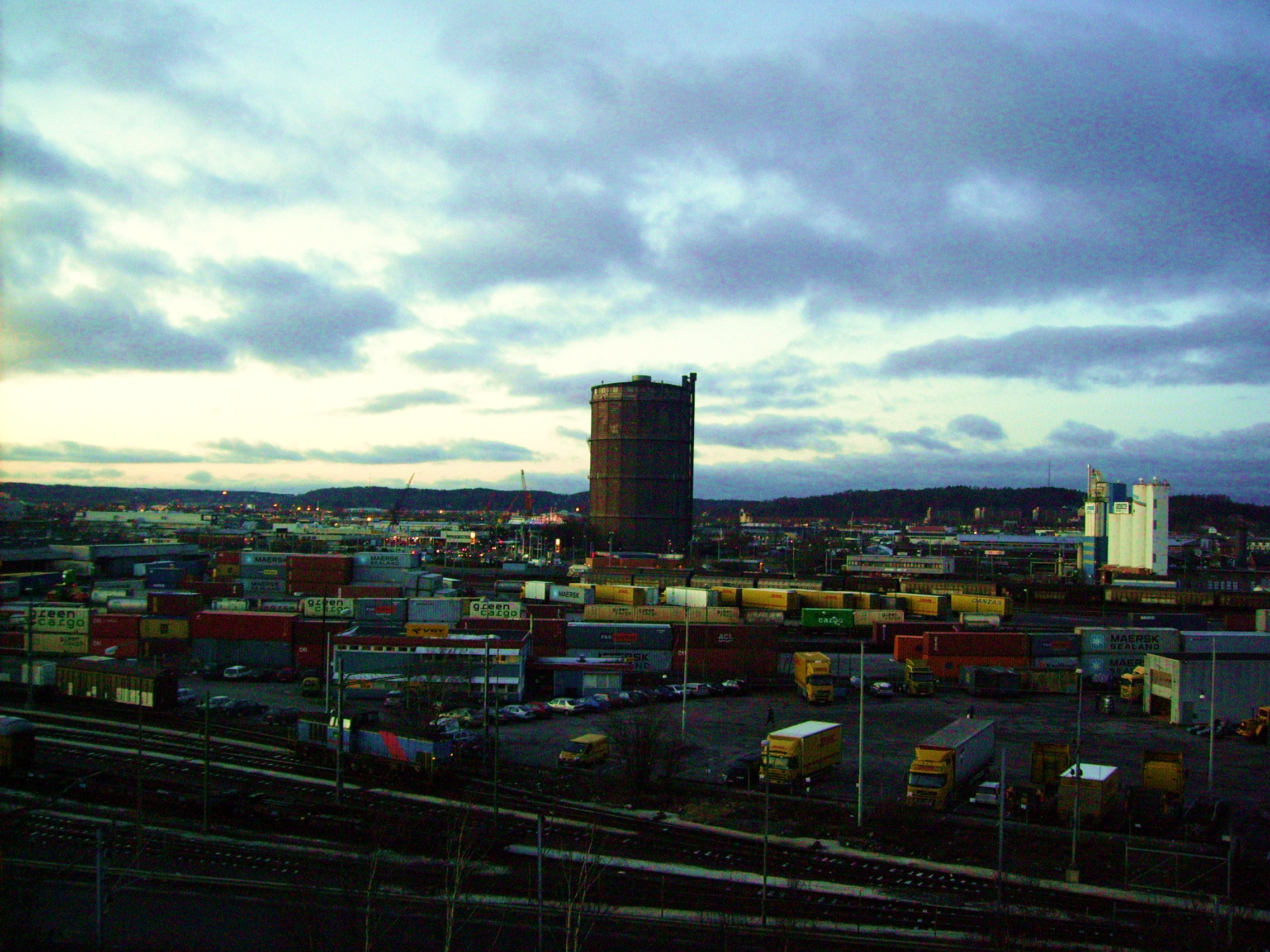 Picture of Gullbergsvass in Gothenburg, Sweden